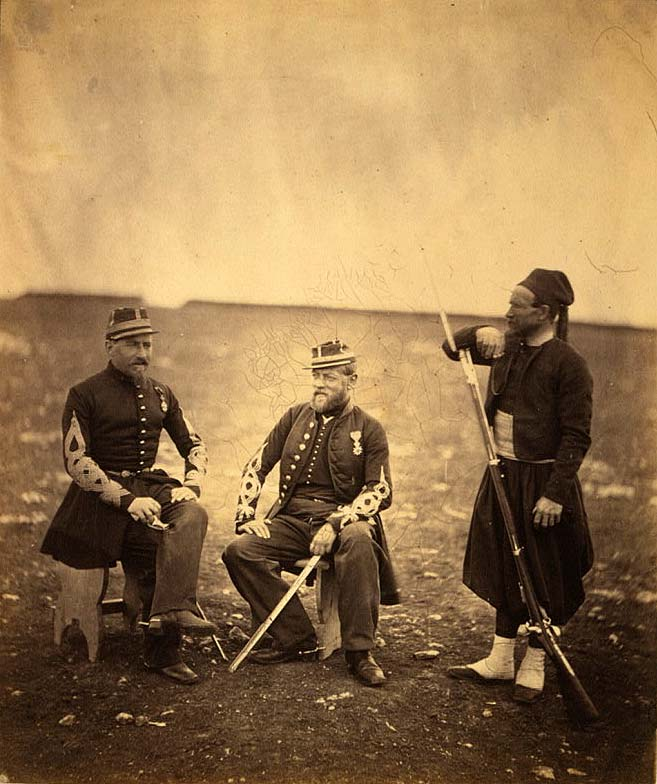 Two French Zouaves officers and one private in 1855